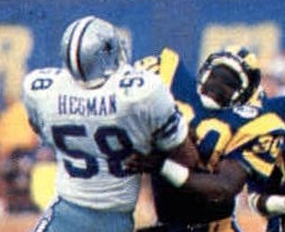 Los Angeles Rams' running back Barry Reden (right) pictured blocking Dallas Cowboys' linebacker Mike Hegman (left) during the 1985 NFC Divisional Playoffs game on January 4, 1986.